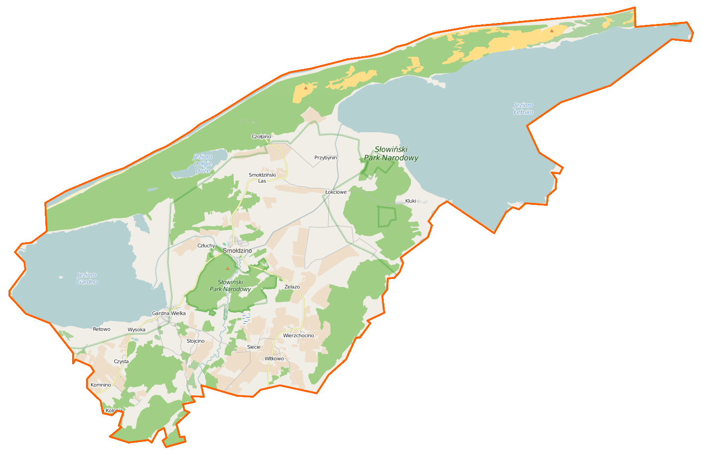 Map of Gmina Smołdzino, Poland This map of Smołdzino (gmina) was created from OpenStreetMap project data, collected by the community. This map may be incomplete, and may contain errors. Don't rely solely on it for navigation.